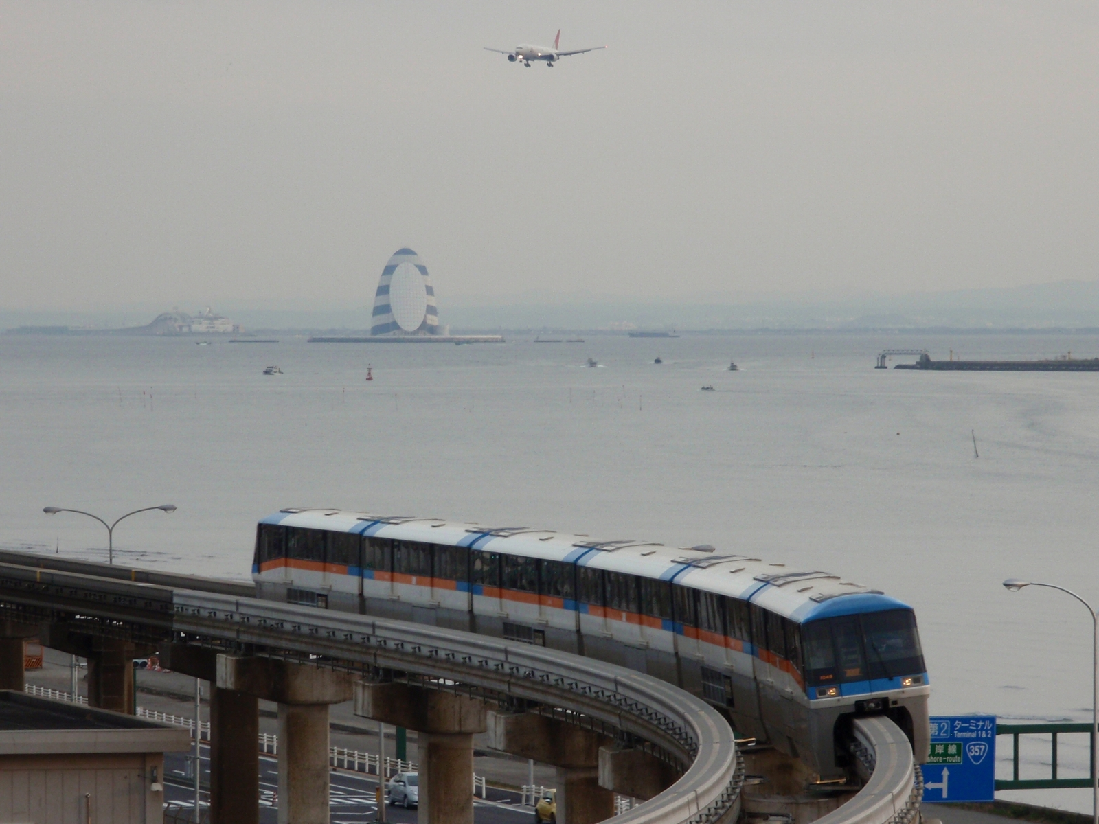 EMU type 1000 of Tokyo Monorail. The airplane that is landing in the rear side is B777-246 of Japan Airlines.